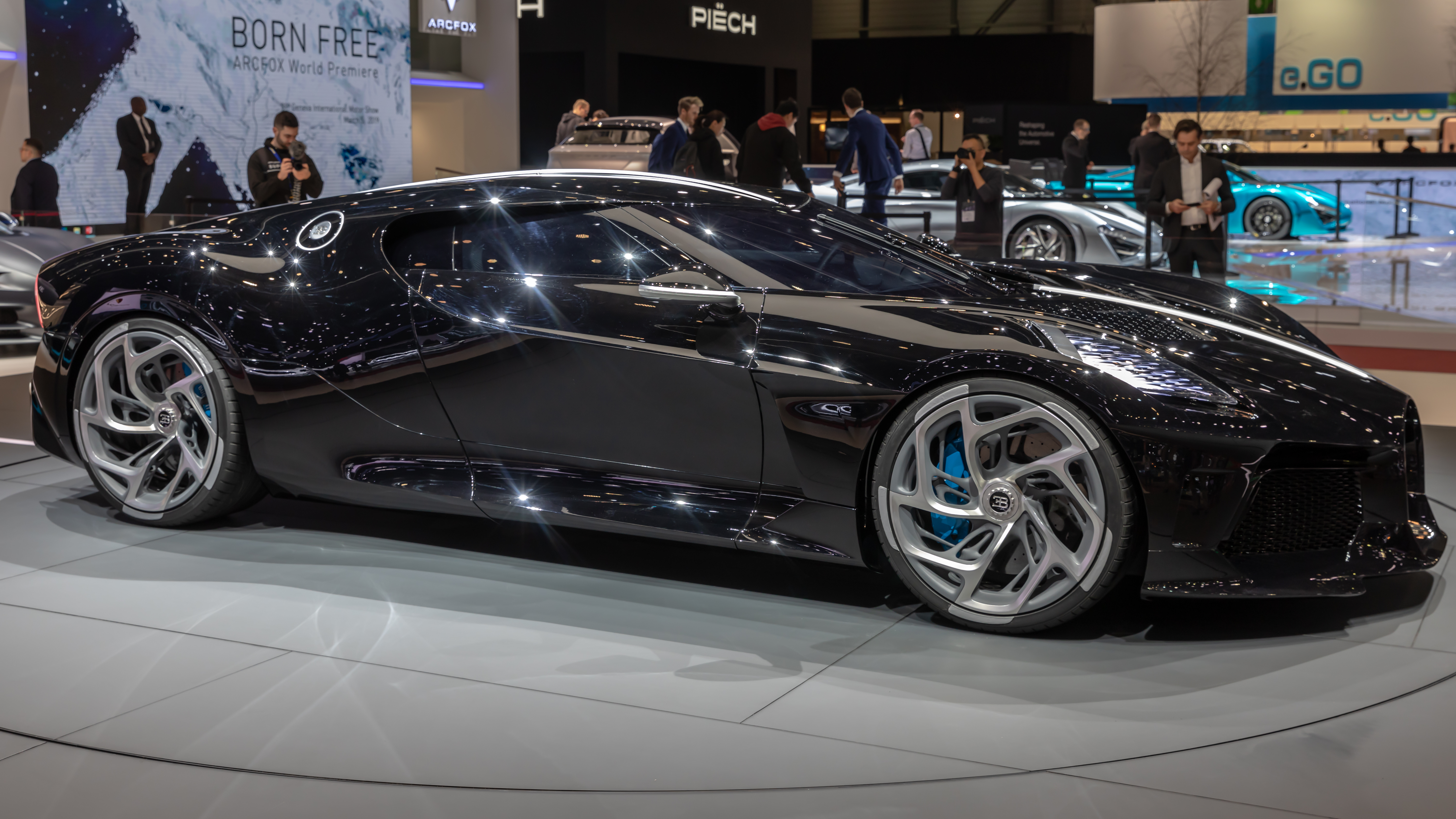 Bugatti La Voiture Noire at Geneva International Motor Show 2019, Le Grand-Saconnex